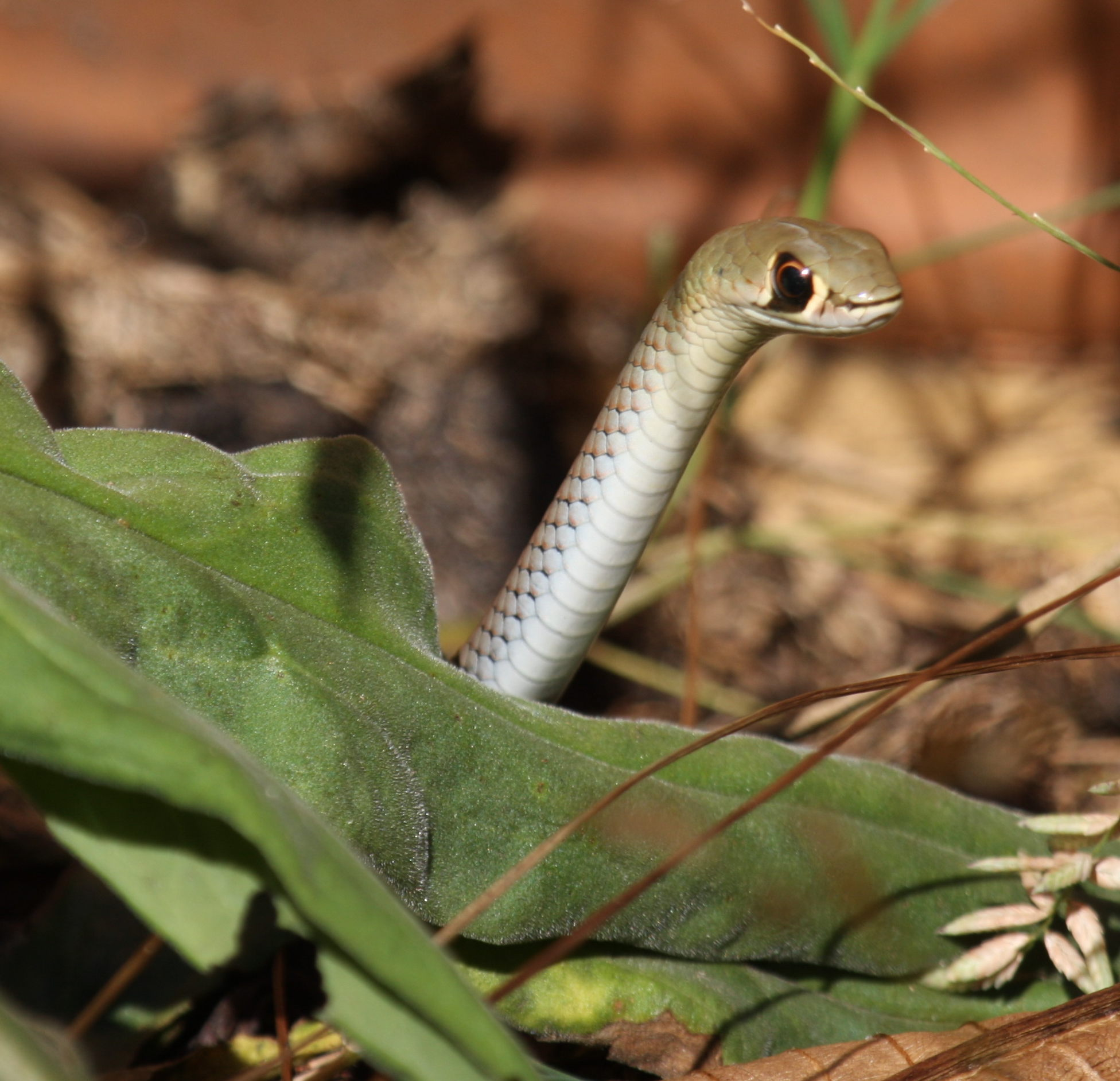 Yellow-faced Whip-Snake (Demansia psammophis) Kobble Creek, SE Queensland, Australia